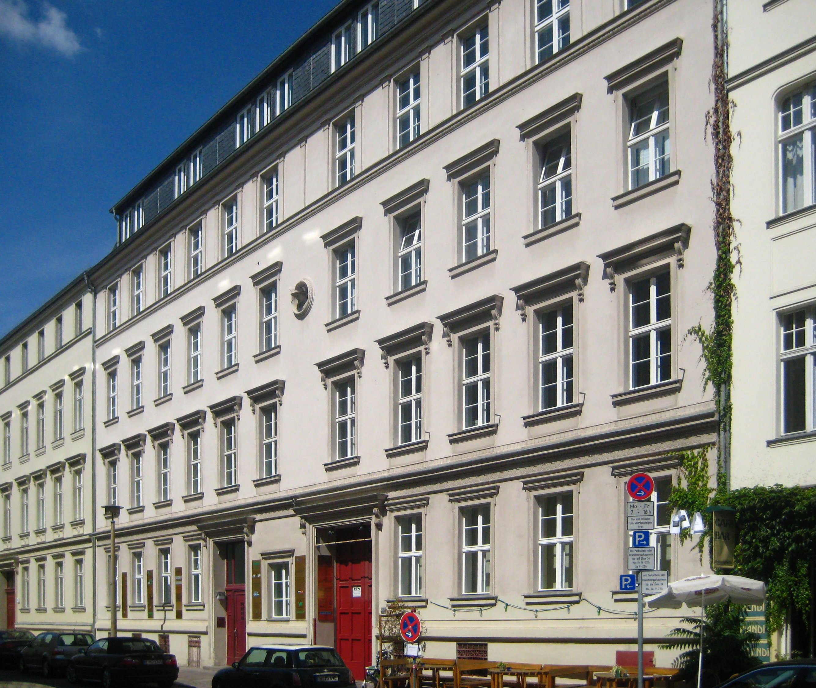 Residential building and former building of the de luxe paper factory W. Hagelberg at Marienstraße No. 19-20 in Berlin-Mitte. The building was constructed in 1842. It has been designated as a historic landmark.